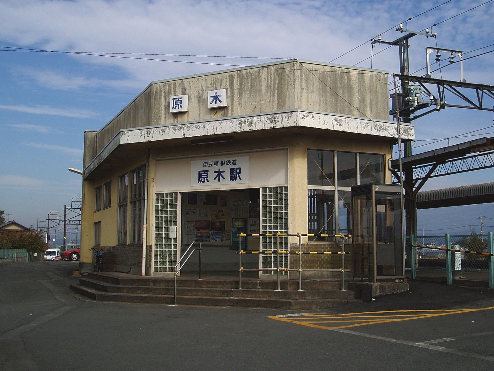 Isuhakone Railway Company, Baraki Sta. 2007.11.26 Photo by Cassiopeia_sweet.